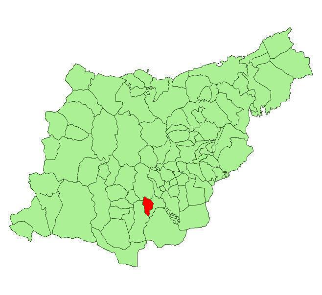 Olaberria municipality in the province of Guipuzcoa